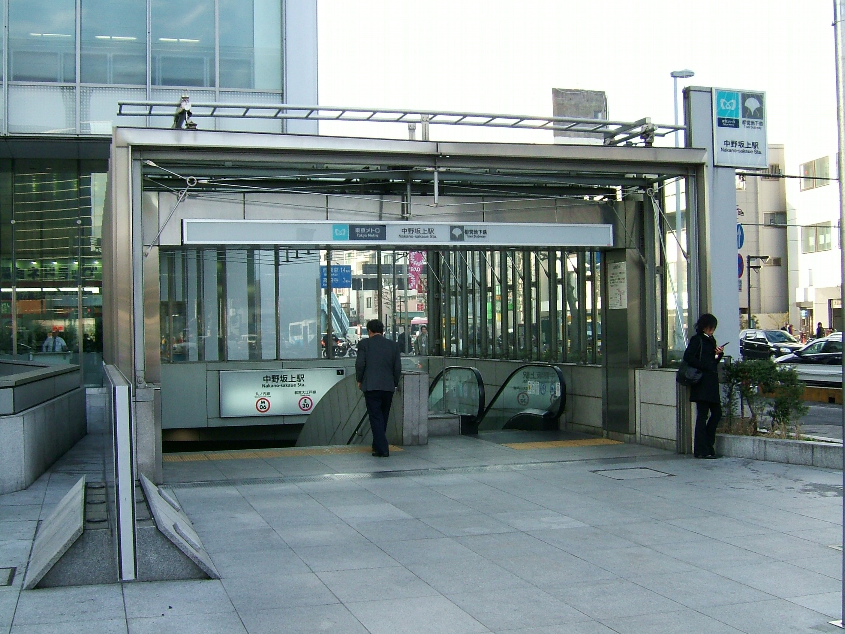 The no.1 entrance to Nakano-sakaue Station on the Tokyo Metro Marunouchi Line and Toei Ōedo Line in Nakano city, Tokyo, Japan